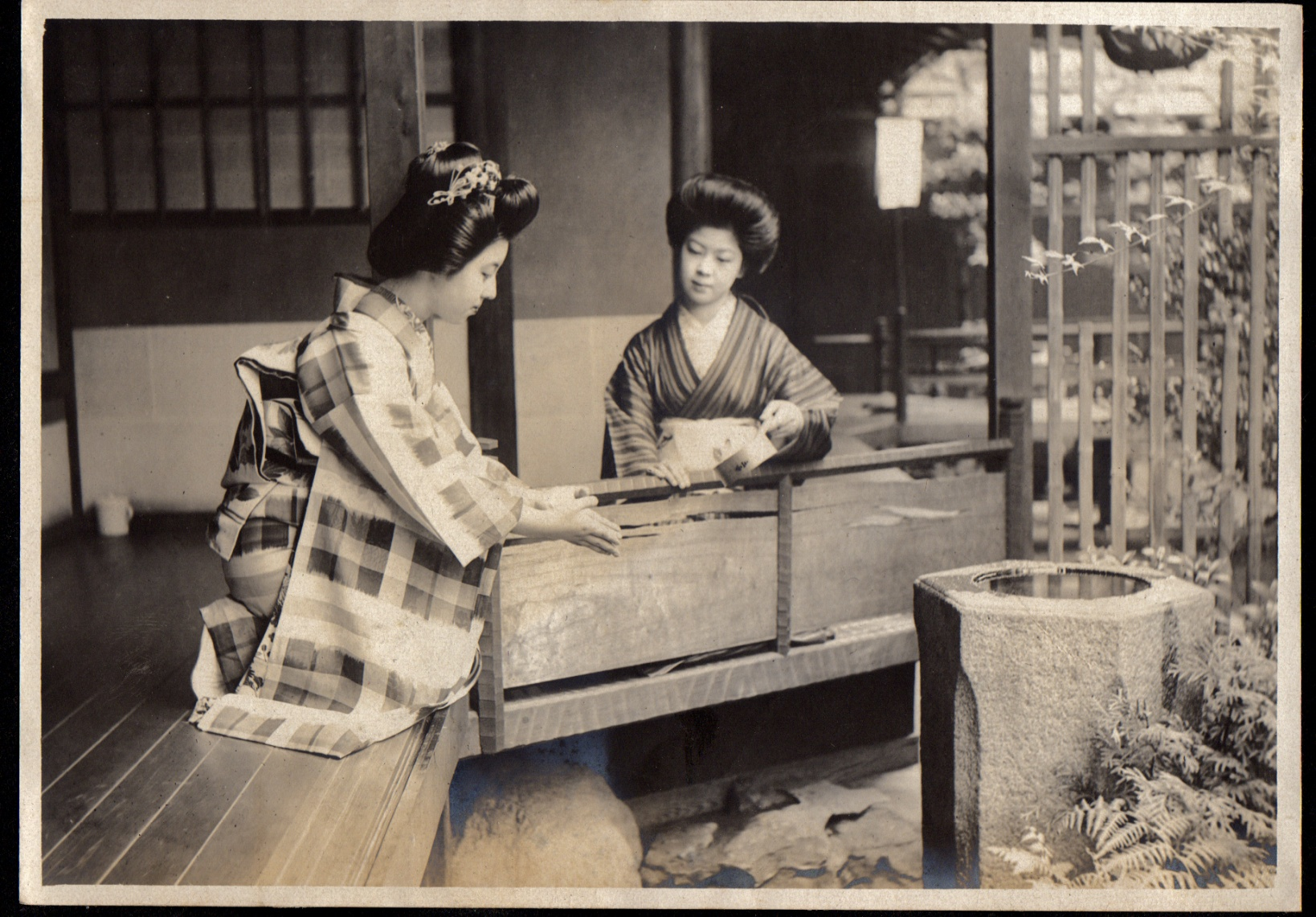 My spouse's uncle Elstner Hilton took this photo in Japan between 1914 and 1918. I don't know what the women in this photo are doing. My best guess is the woman on the right is holding a pan of water and the woman on the left is holding out her hands to rinse them. "It looks like they are engaging in temizu, a cleansing ritual that falls under the larger cleansing act of misogi. The stone water basin on the right is a tsukubai, which holds water used to purify the body and spirit. Whening doing this, a person will scoop the water out, wash the left and then the right hand before cleaning the mouth out with some water as well. You can learn more about it here, . The angles within the whole photograph are really beautiful."— Sarah @ Flickr